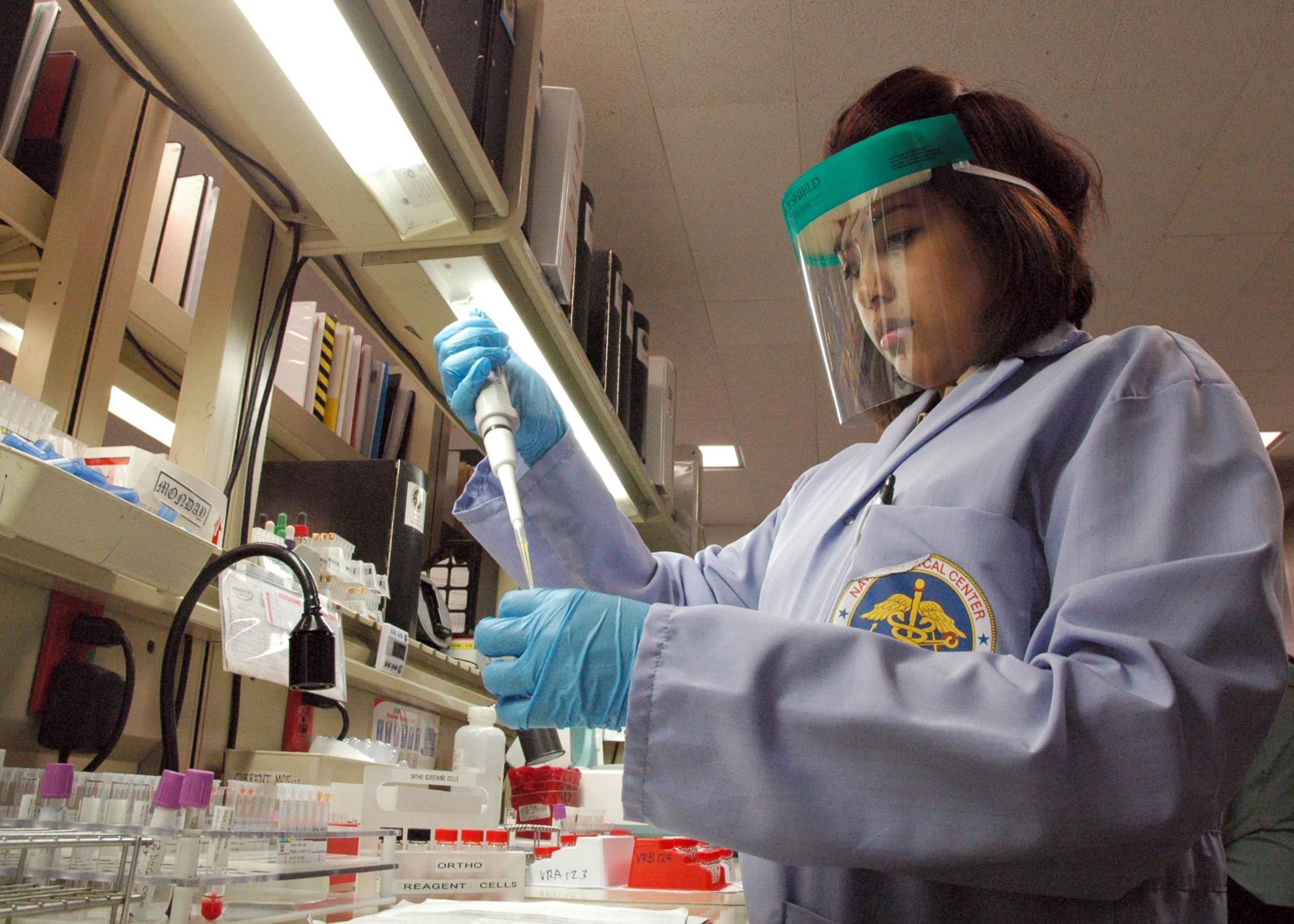 SAN DIEGO (March 2, 2009) Hospital Corpsman 3rd Class Ivy Gaskins uses a pipette to mix a red blood count suspension to confirm the donor' blood type in the Naval Medical Center San Diego Blood Bank. All blood products in the NMCSD Blood Bank are screened for diseases. Blood type is confirmed before being stored, shipped, or used in patients. (U.S. Navy photo by Mass Communication Specialist 3rd Class Jake Berenguer/Released)